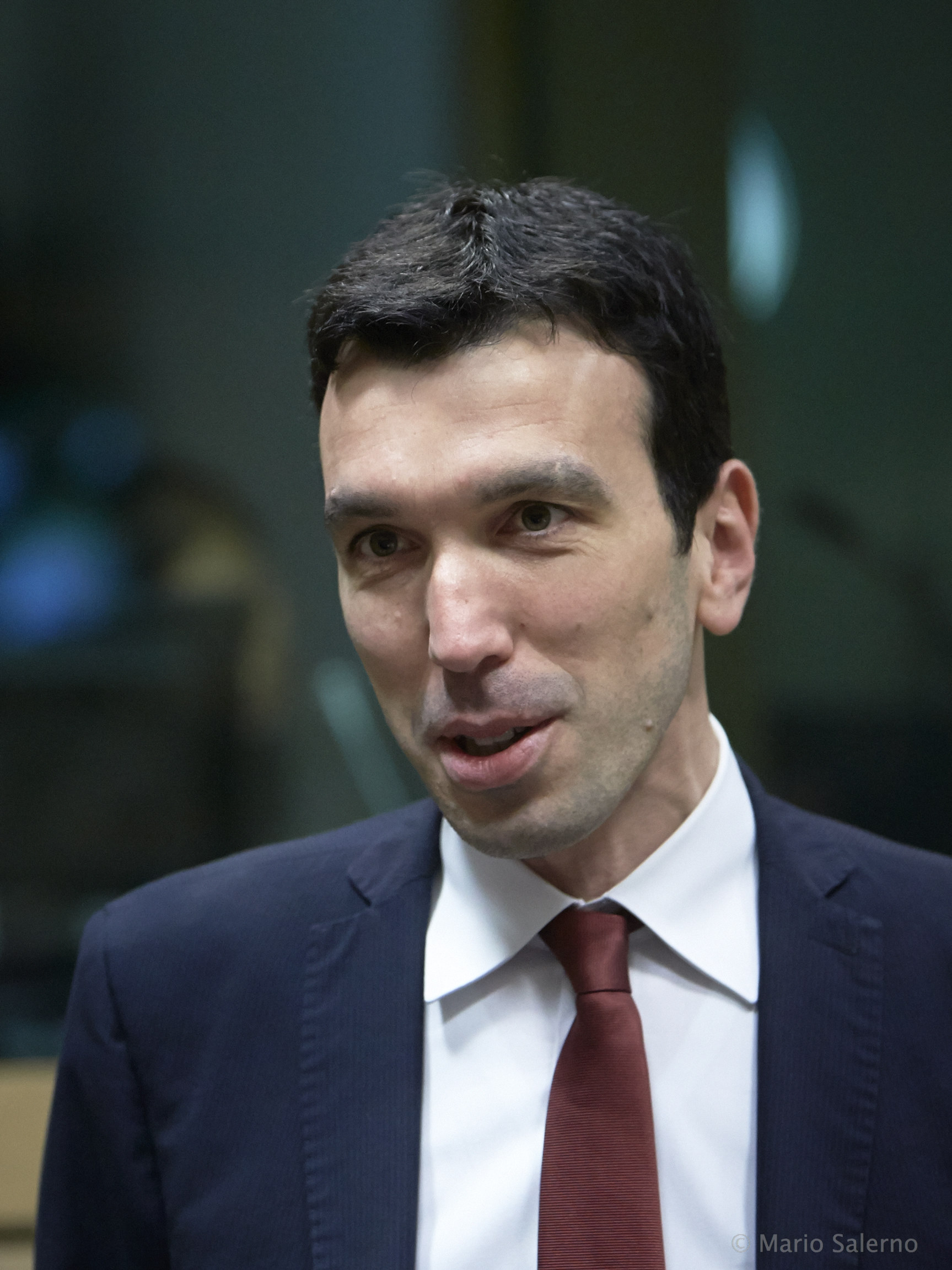 Maurizio Martina